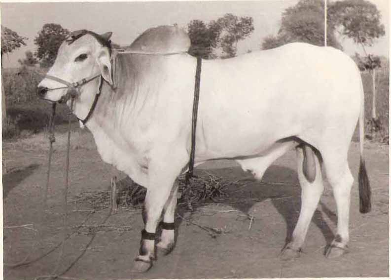 This Bull won AP State Award and also the first prize at " Southern regional live stock and poultry show", Palghat, Kerala - 1988.